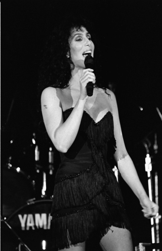 Cher at the Pediatric AIDS Foundation. She did a pocket show with five songs and talked about her split with bagel boy Rob Camilletti: "I just broke up with my boyfriend, so this next song ['We All Sleep Alone'] is particularly meaningful to me.")